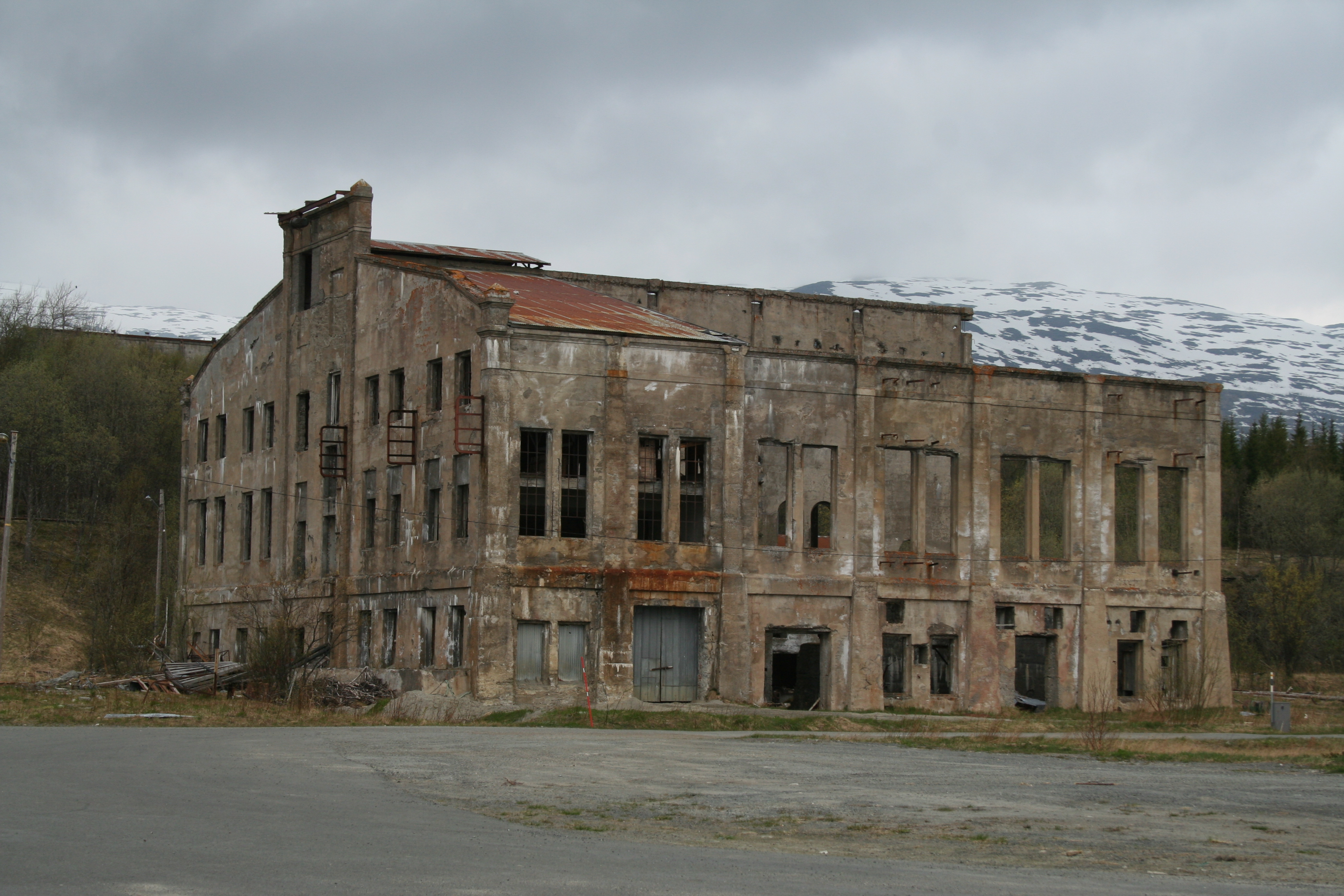 Ruins after the ore industry at Salangsverket in Salangen. The ore was mined at Storhaugen, then processed at and shipped from Salangsverket.